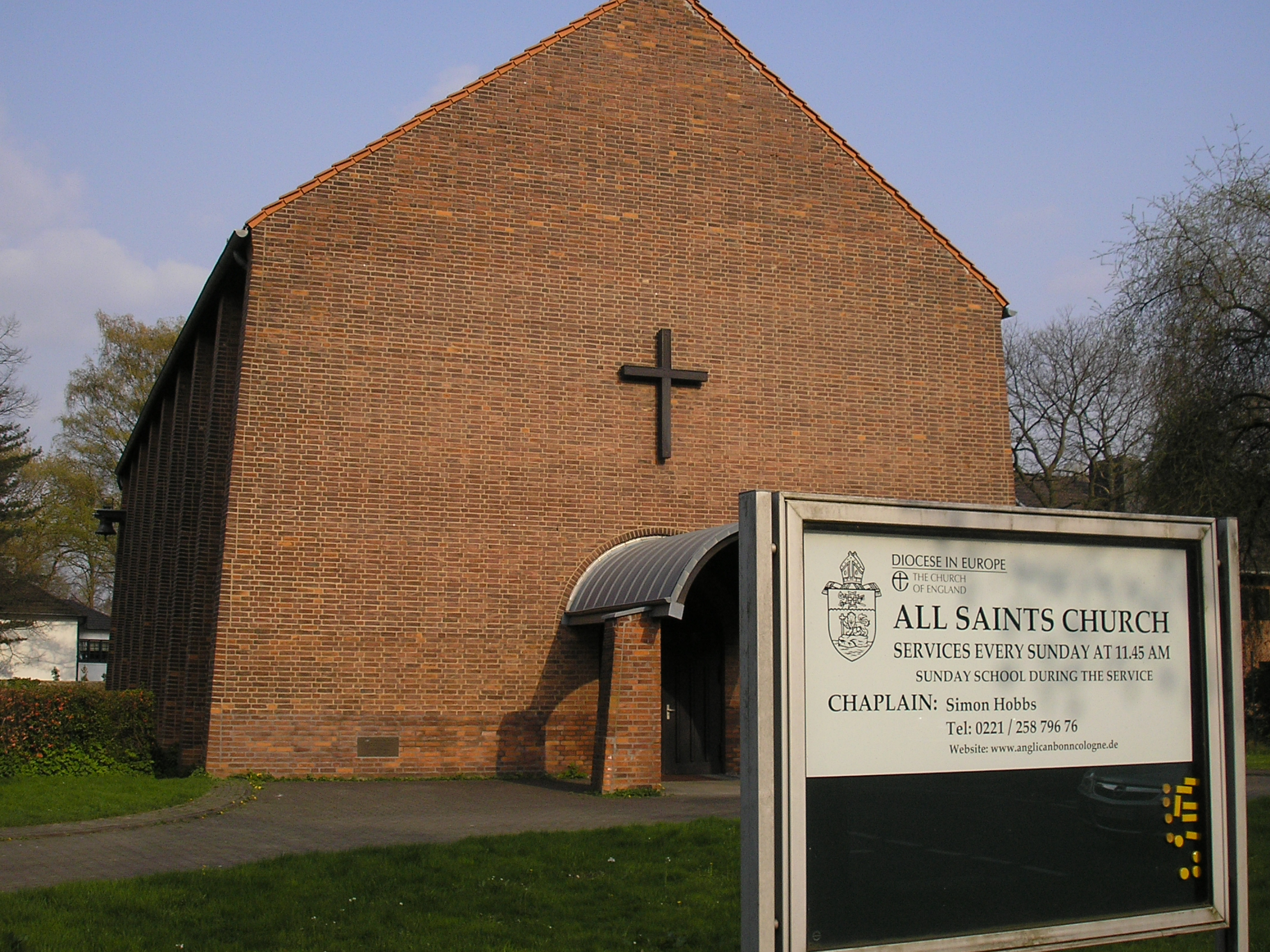 All Saints Church, Cologne-Marienburg